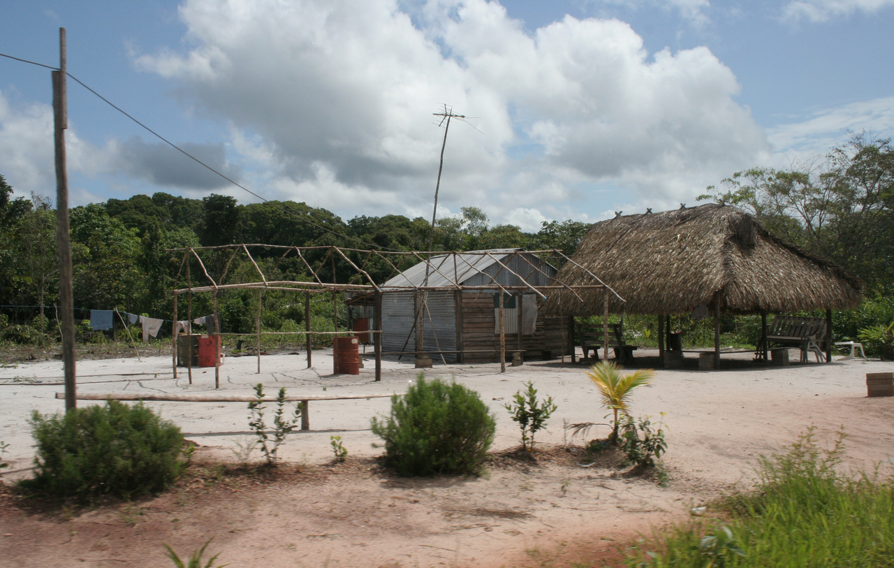 On the road to Jodensavanna, Suriname. Indian village.